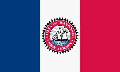 The official city flag of Bayonne, New Jersey, created by T.F. Parker in 1914.